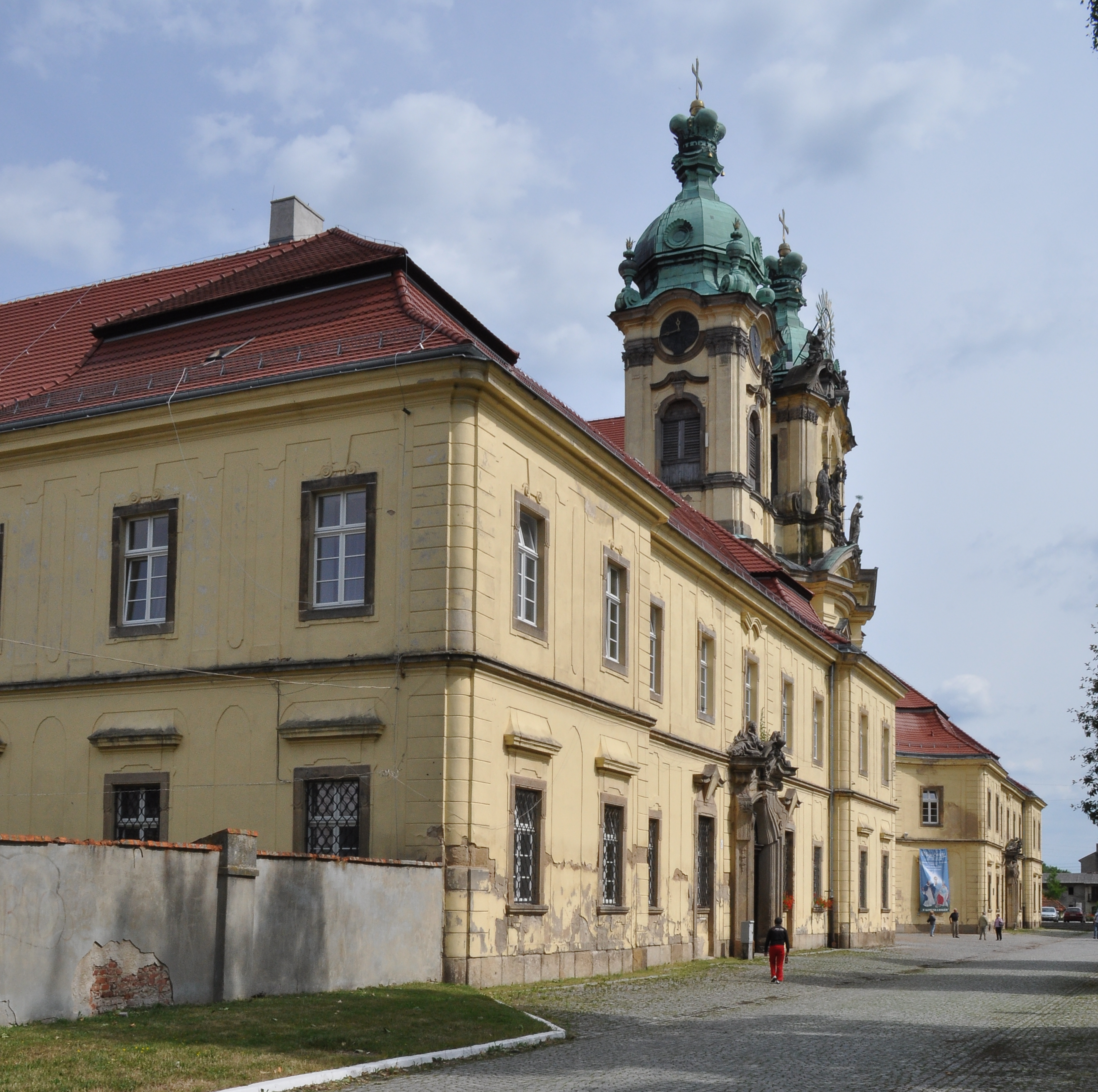 Benedictine Monastery and church of St. Jadwiga in Legnickie Pole